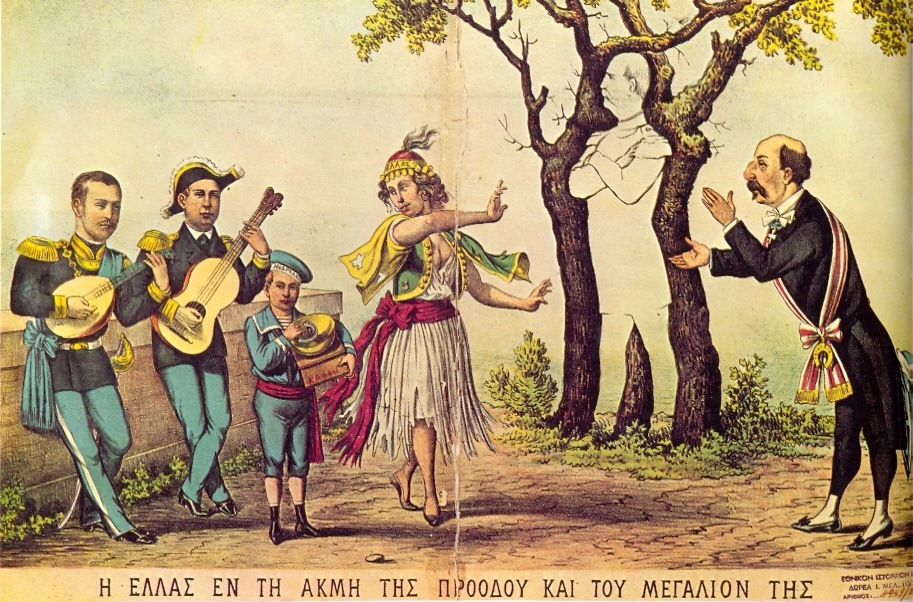 Greek satirical cartoon from the "New Aristophanes" magazine (Νέος Αριστοφάνης) of the 1880s, legend reads, "Greece at the peak of its progress and greatness". The Greek royal princes play music to which the country dances, while PM Charilaos Trikoupis applauds and King George I is shown supporting the olive tree, the symbol of Trikoupis' party.